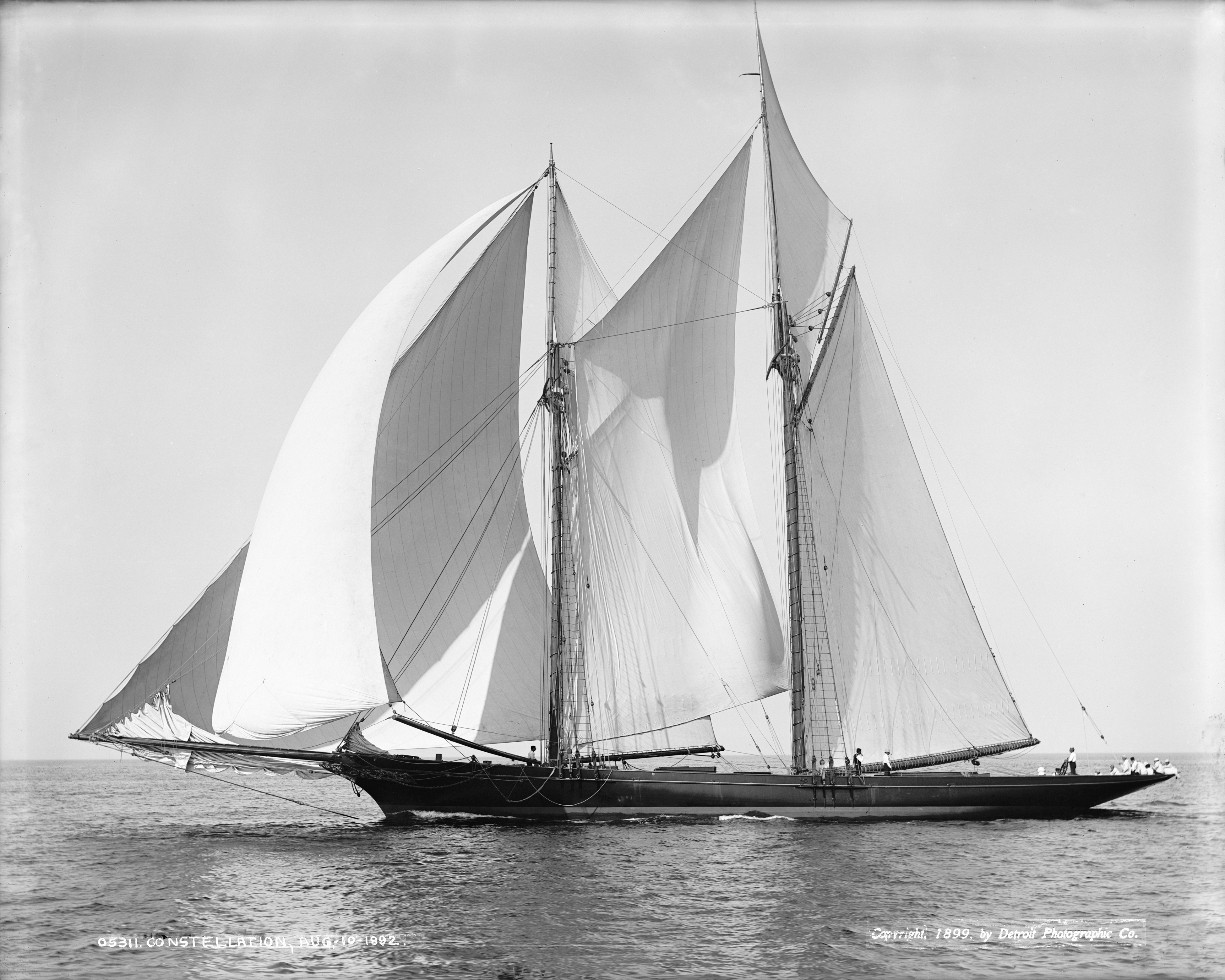 Edward Dennison Morgan's centerboard schooner Constellation (Edward Burgess design, built in 1889 at the Henry Piepgras shipyard, NY). She was the largest iron yacht at launch. She is pictured here on August 10th, 1892 in the Marblehead, MA, race, which she won in her class. New York Times - Winners of the Gerry Cup races